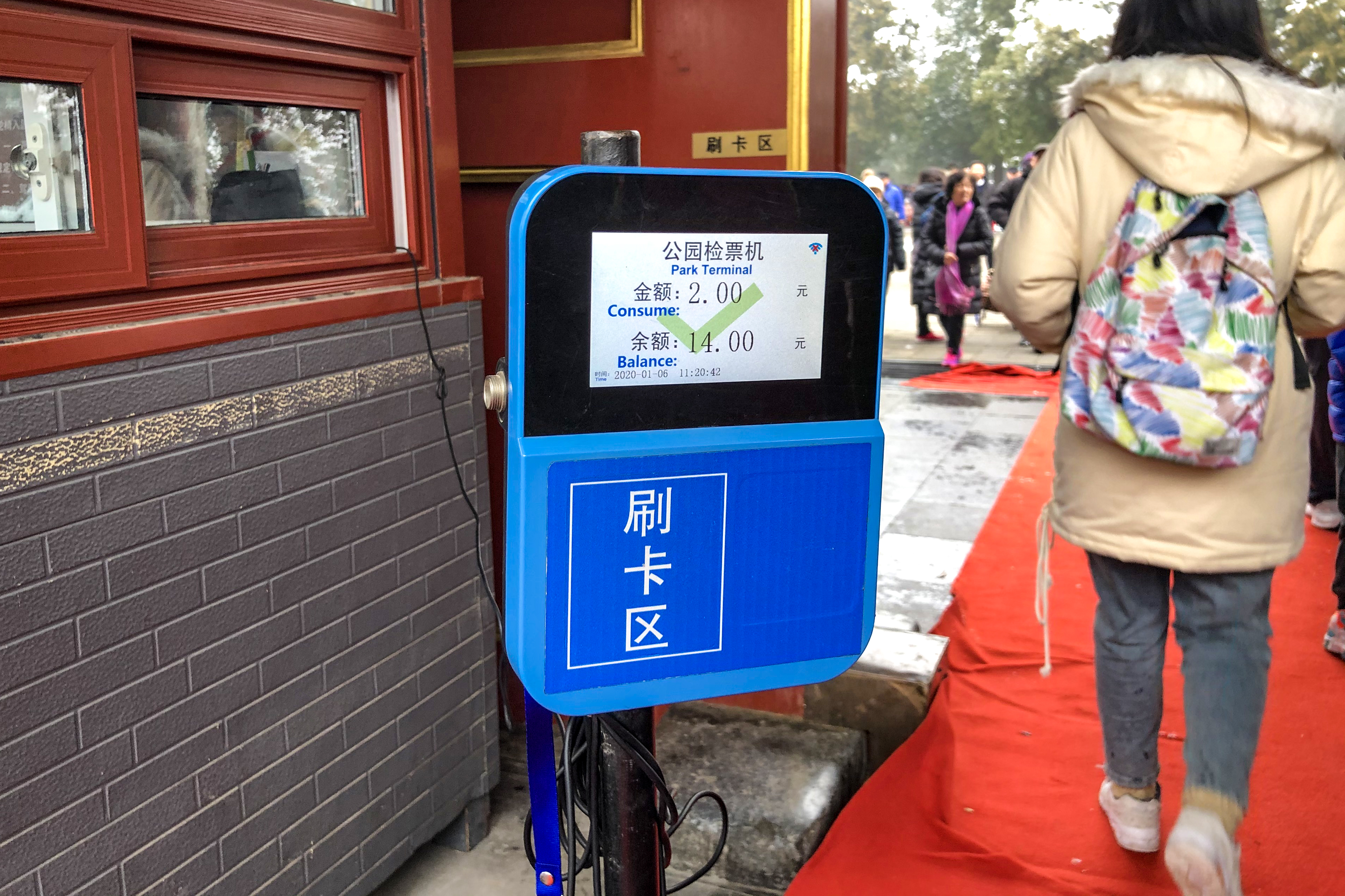 Jingshan Park supports direct entrance with Beijing Municipal Administration & Communication Card, with an entrance fee of CNY2.00 per person.